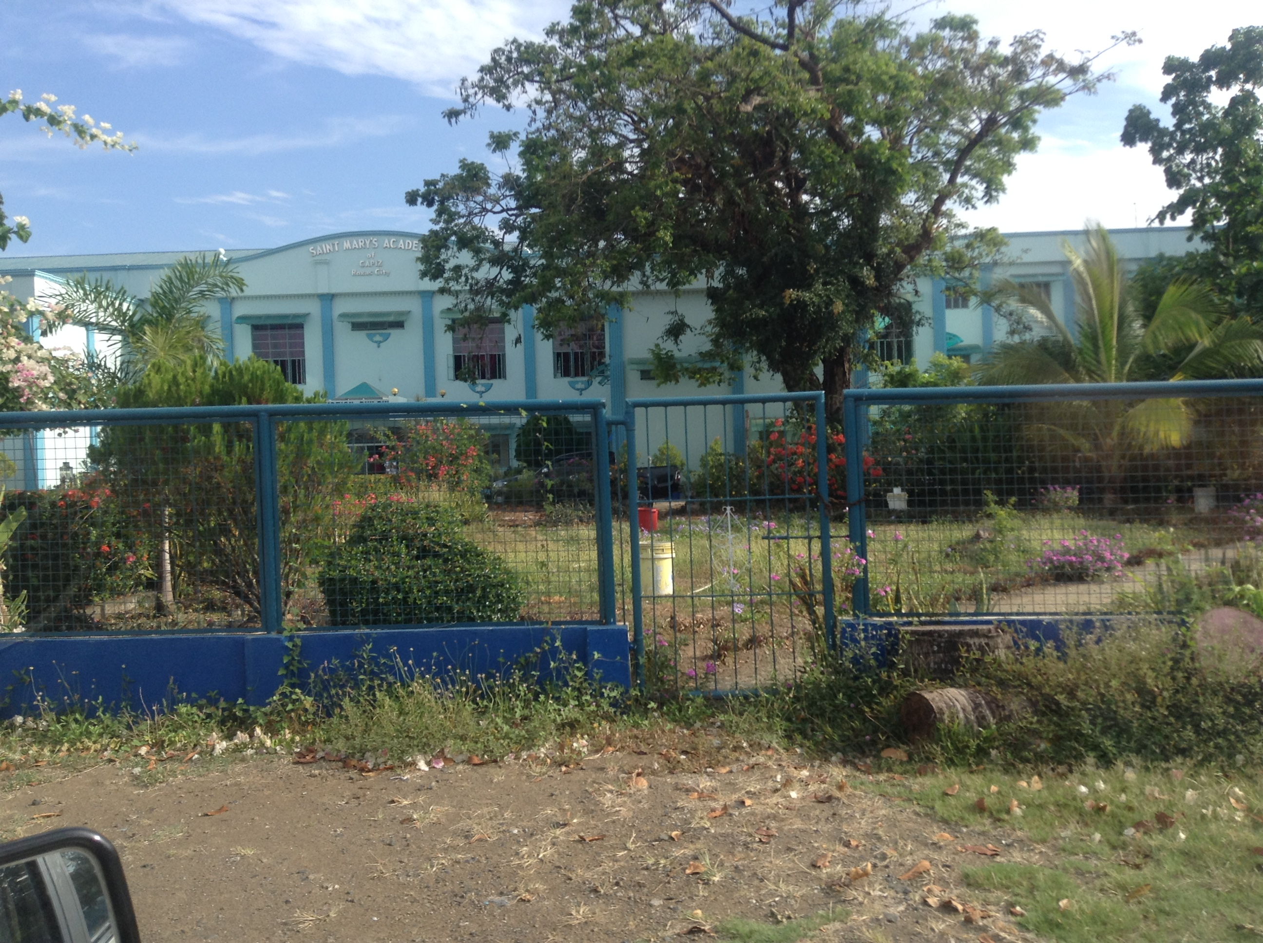 The facade of SMAC as seen from the vehicle parking area